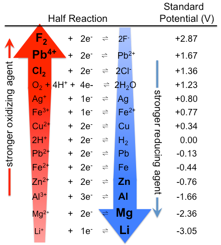 Table of standard electrode potentials